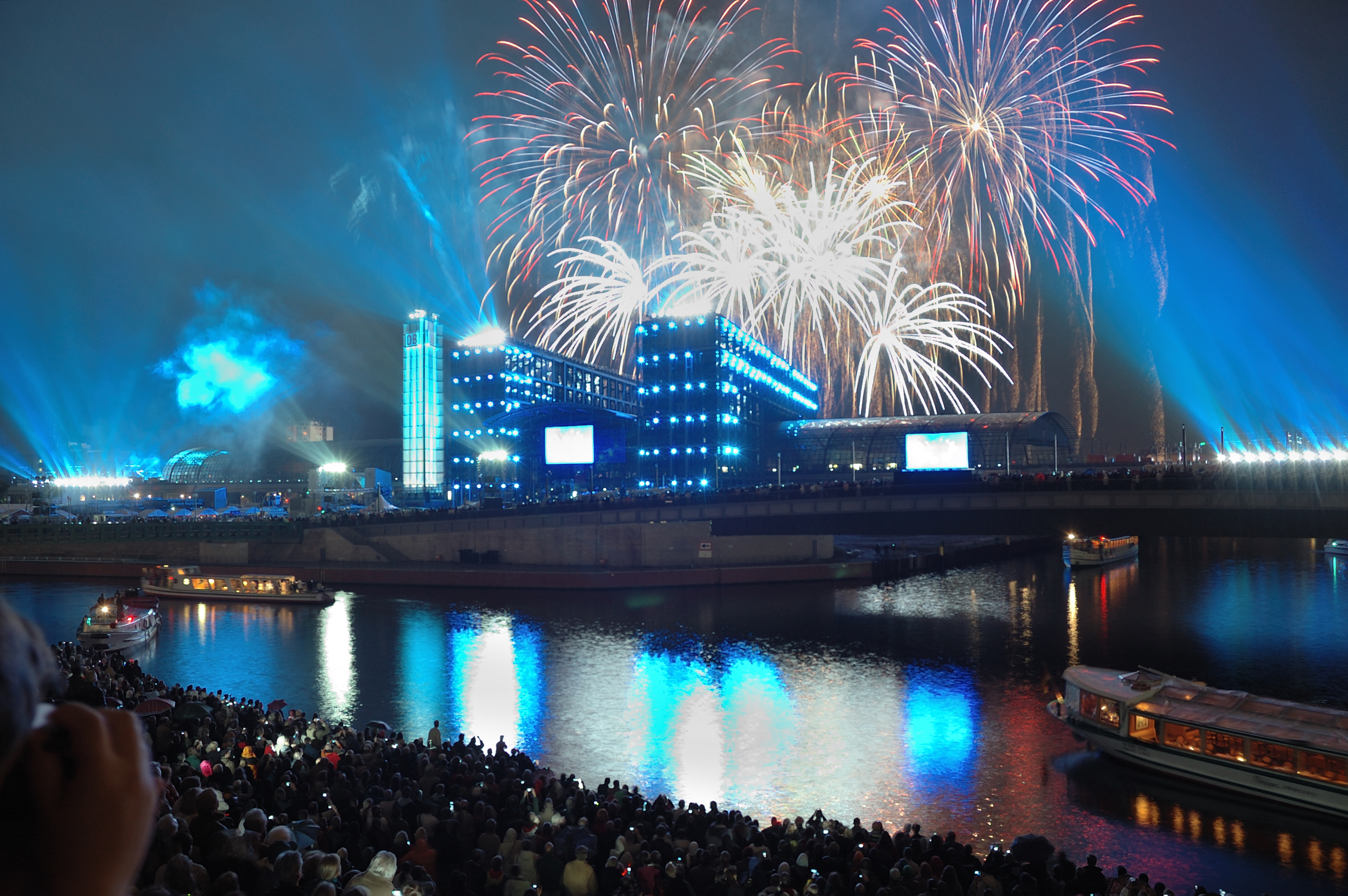 Opening party for Berlin Central Station. There were about 500,000 visitors.